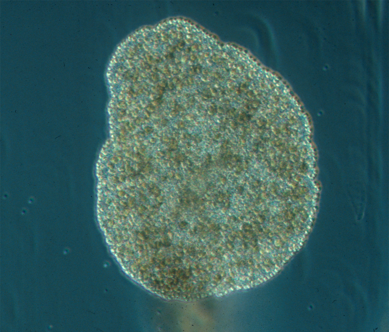 The animal is about 0.5 mm in diameter